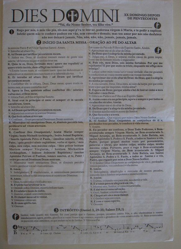 Liturgical Leaflet for the laity "Dies Domini", the Personal Apostolic Administration Saint John Mary Vianney, which distributes two columns in the prayers and responses of the laity at Mass in Portuguese and Latin. Brochure twentieth Sunday after Pentecost.